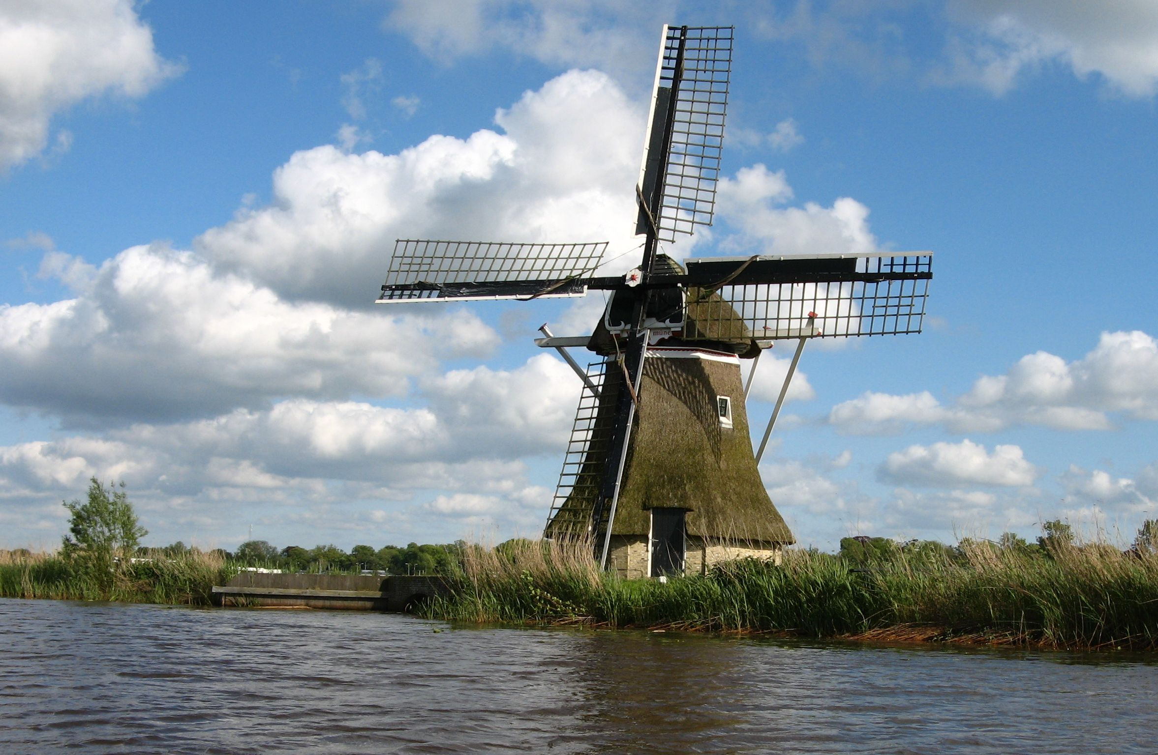 Ypeymûne, also known as ypeymole or ypeymolen, a windmill near Ryptsjerk, the Netherlands. Picture taken from the water during a canoeing trip.